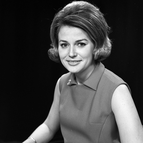 Willy Dobbe in 1967